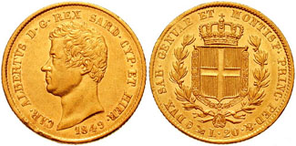 Italia, Regno di Sardegna. Carlo Alberto di Savoia. 1831-1849. AV 20 Lire (21mm, 6.47 g). Datata 1849. Testa nuda sin Stemma della famiglia Savoia entro corona. Friedberg 1143; KM 115.2. Italy, Kingdom of Sardinia. Charles Albert. 1831-1849. AV 20 Lire (21mm, 6.47 g). Dated 1849. Bare head left Crowned royal coat-of-arms; all within wreath. Friedberg 1143; KM 115.2. Italian pre-unification coins